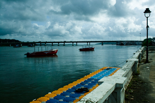 Mandovi river and bridge during monsoon. Original